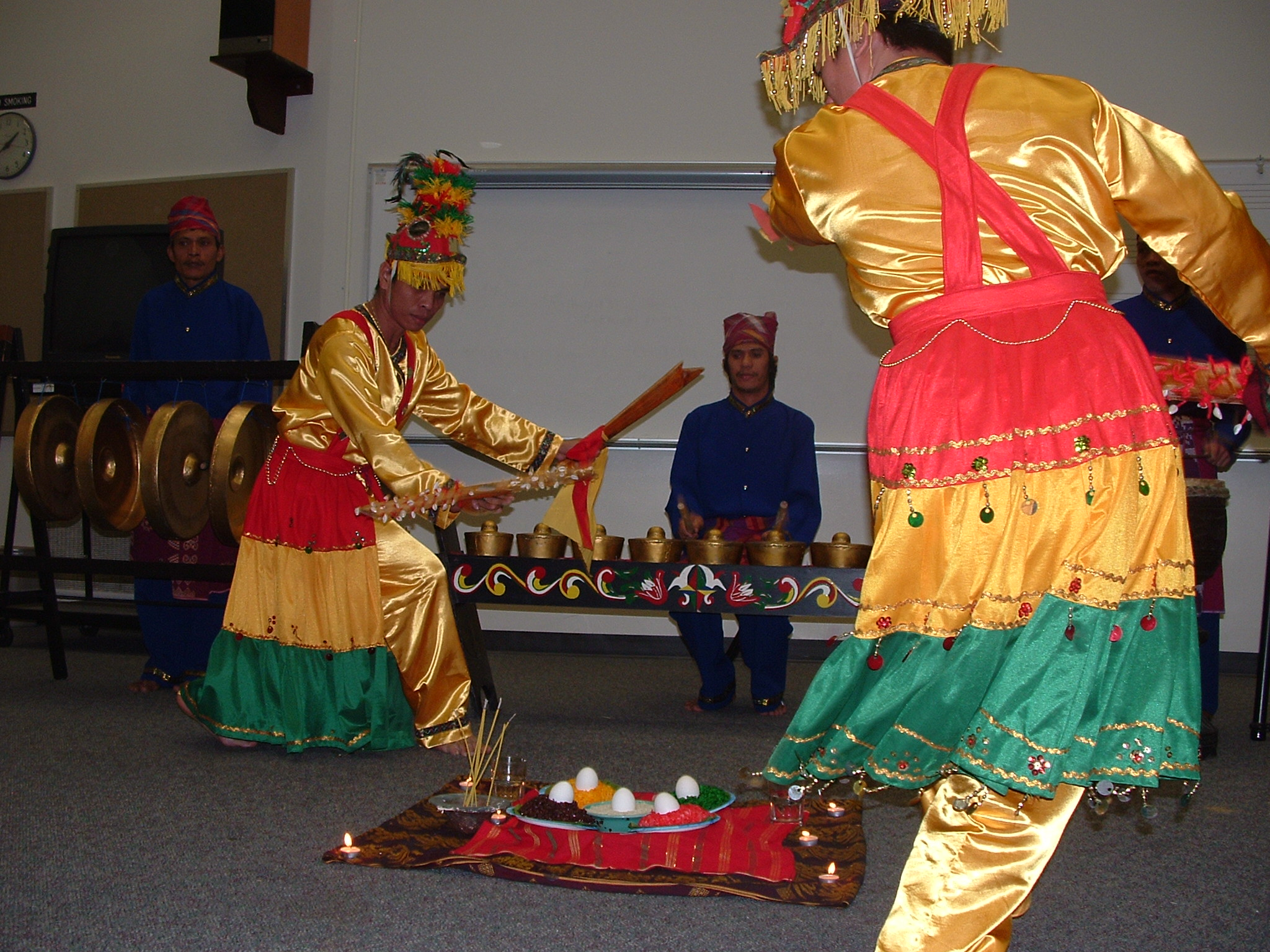 The eight Philippine horizontally laid, knobbed gongs known as the kulintang used as a main melodic instrument in the kulintang ensemble. Here, it is used as an accompaniment for a healing ritual. The dancers perform the dance, sagayan, while the kulintang player performs the piece, Taggungo.